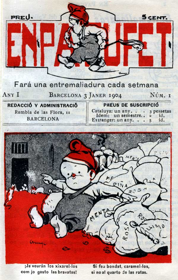 Cover of the first issue from the illustrated children’s magazine En Patufet (1904).